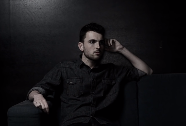 Dutch singer Duncan Laurence in a music video (2014).